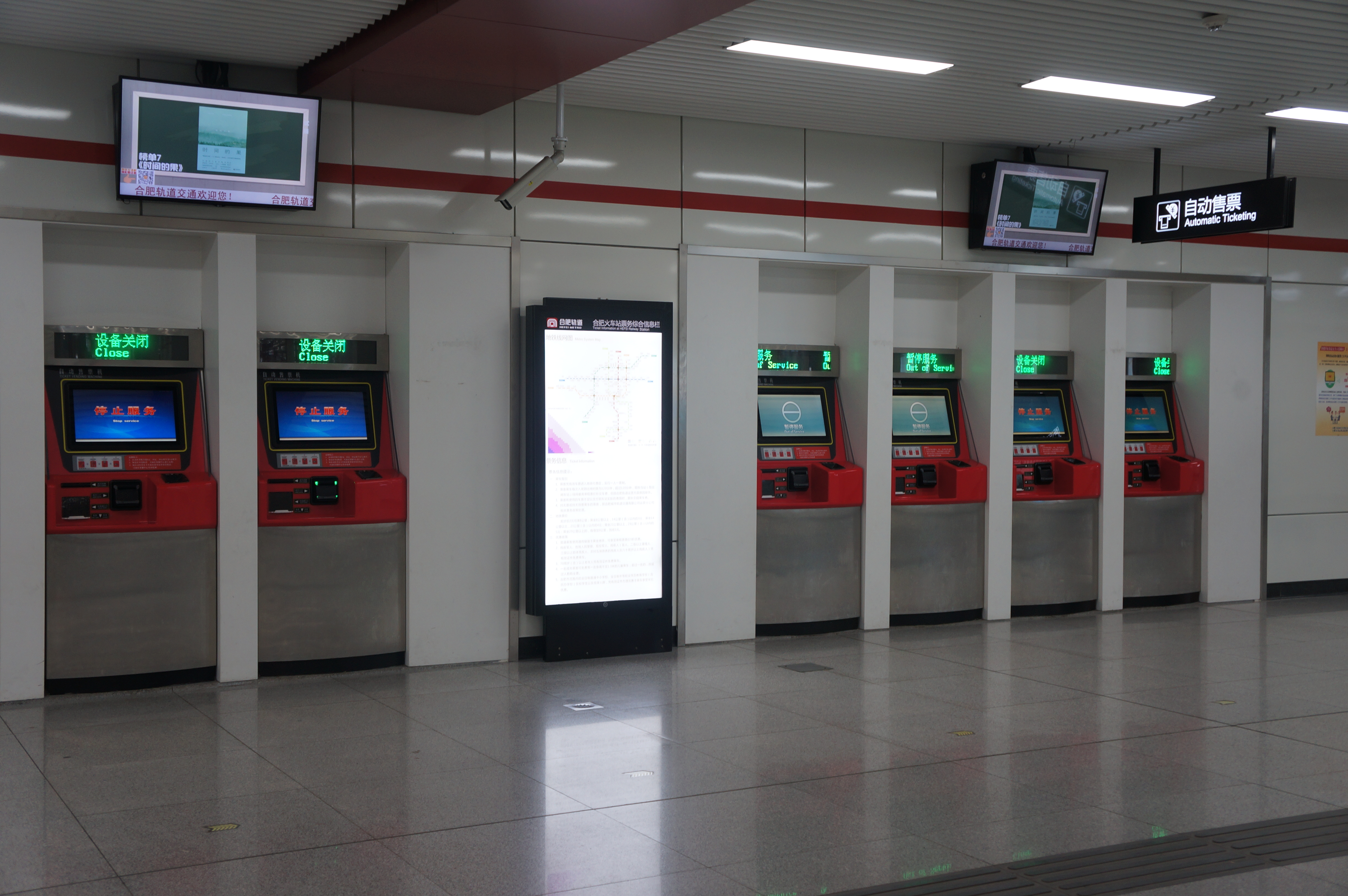 201705 TVMs at Metro Hefei Railway Station. The station was out of service when I arrived at Hefei.